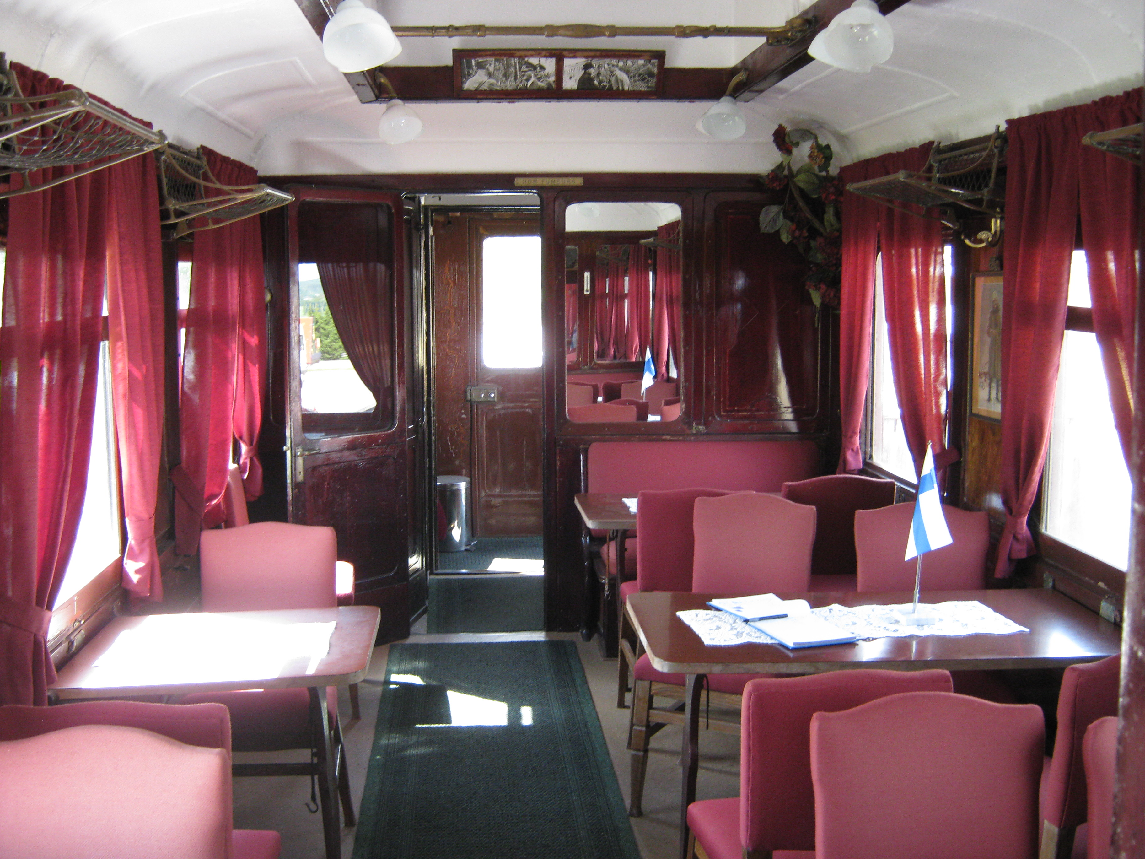 Interior of the saloon coach where Adolf Hitler and C.G.E. Mannerheim met in 4 June 1942, Sastamala, Finland.